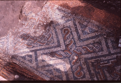 Roman mosaic under St Catherine's, Exeter During the excavation of the ruins of St Catherine's Chapel and Almshouses in Exeter, this small part of Roman mosaic floor was exposed. It is no longer visible.